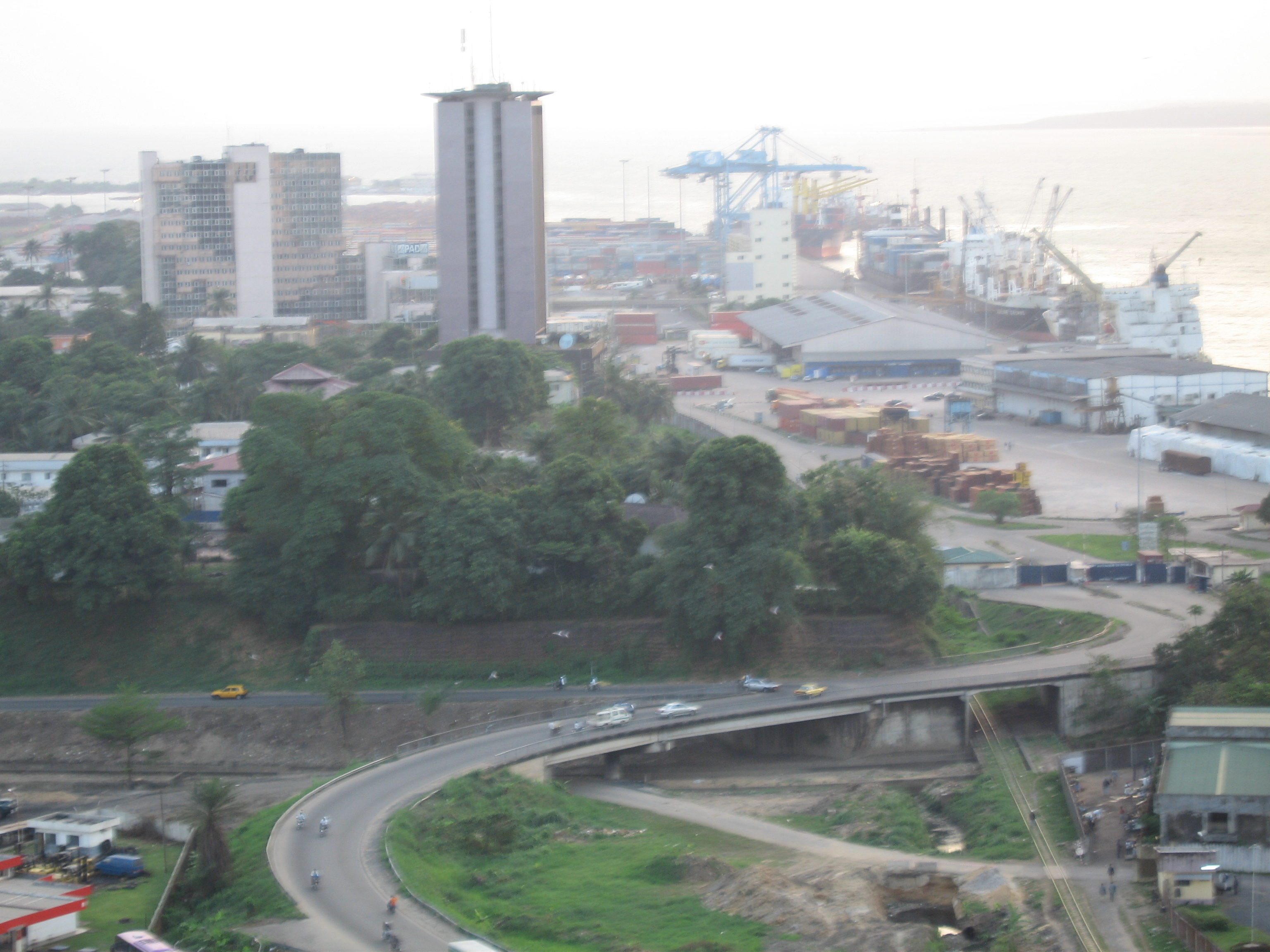 Ars&Urbis International Workshop, organized by doual'art in collaboration with iStrike Foundation, Douala, 2007. Research documentation by Emiliano Gandolfi.